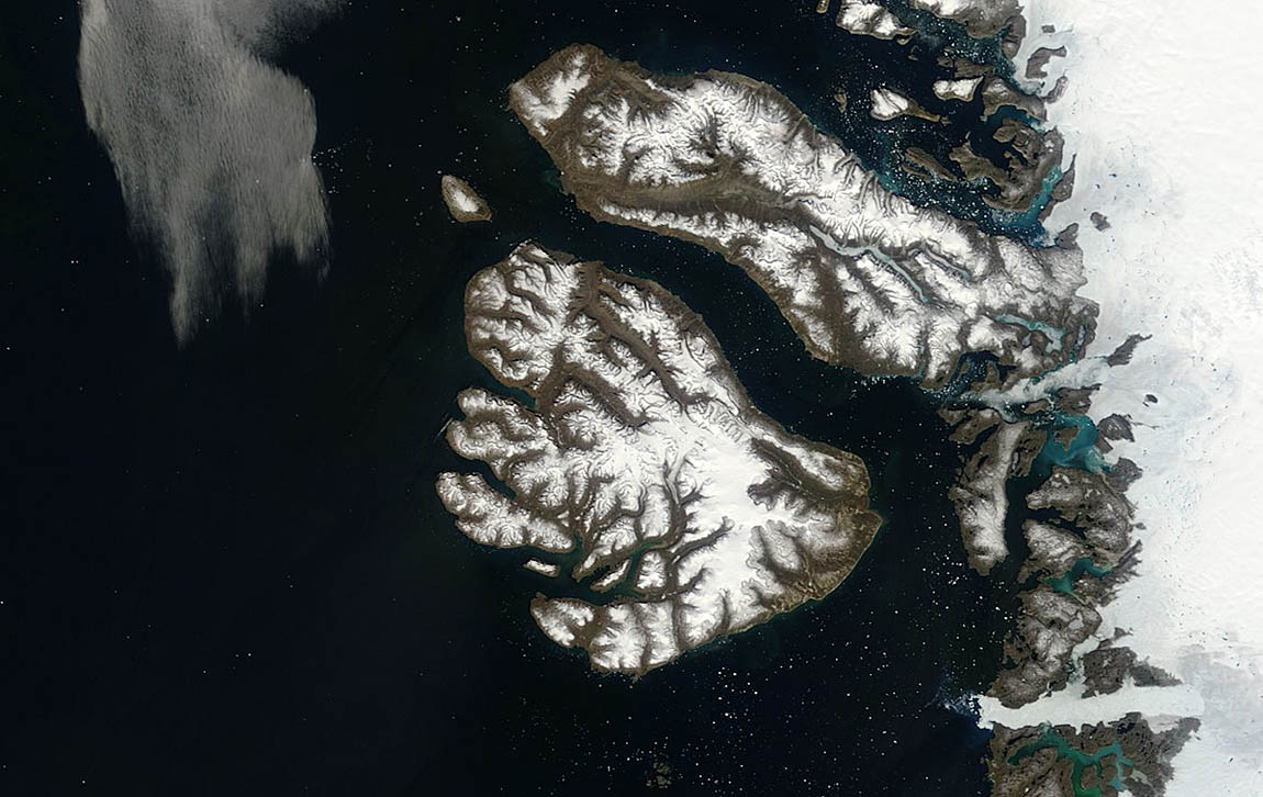 Terra MODIS satellite image of Disko Island (Qeqertarsuaq) off the west coast of Greenland